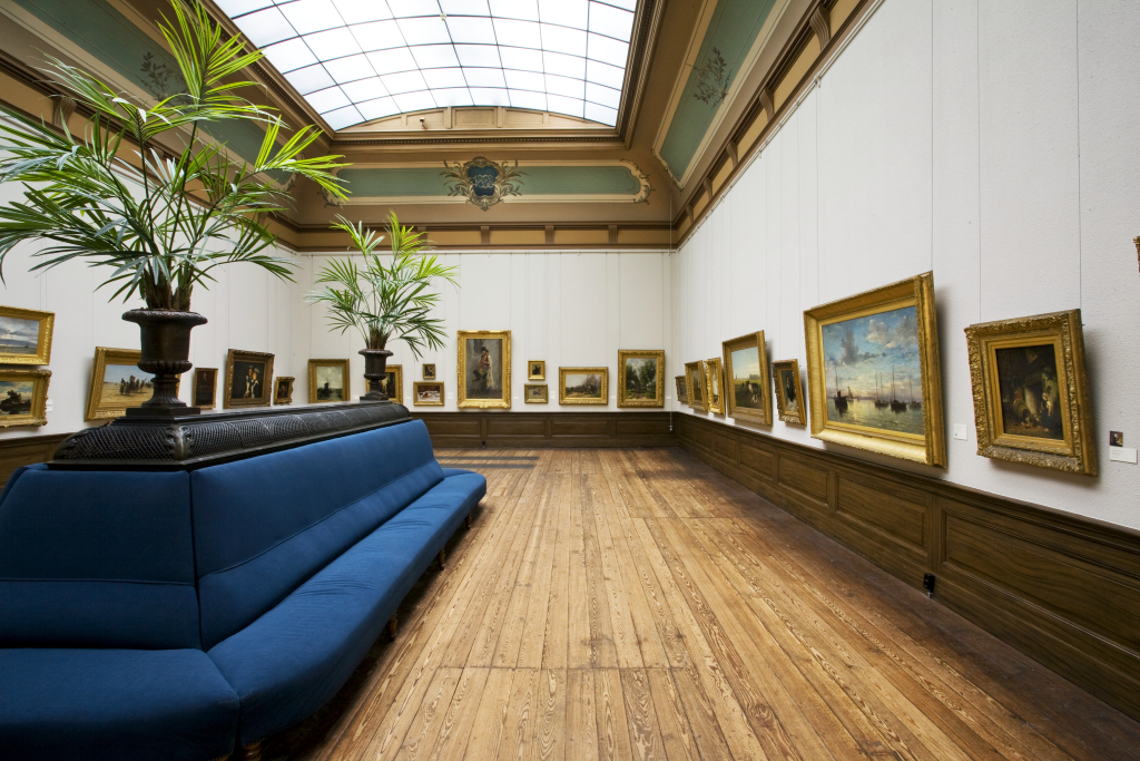 Paintings Gallery II of Teylers Museum (1893), Haarlem, The Netherlands.